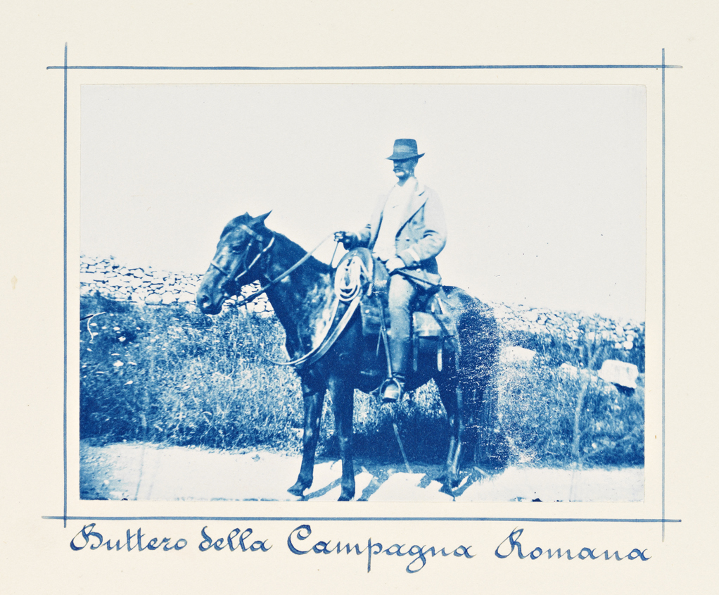 Tittel / Title: Carro da Fieno. Buttero della Campagna Romana. / Høyvogn. Gjeter/cowboy på den italienske landsbygda. [Roma Settembre 1899] Motiv / Motif: Cyanotypi. Dato / Date: september 1899 Fotograf / Photographer: ukjent / unknown Sted / Place: Italia, Roma Eier / Owner Institution: Nasjonalbiblioteket / National Library of Norway Lenke / Link: Bildesignatur / Image Number: bldsa_FAalb002_35